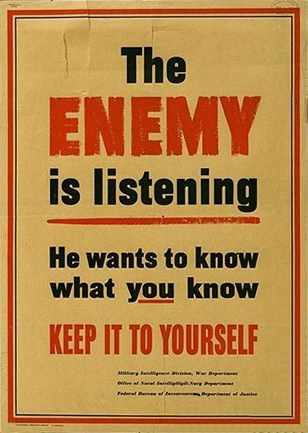 The Enemy is listening He wants to know what you know Keep it to yourself